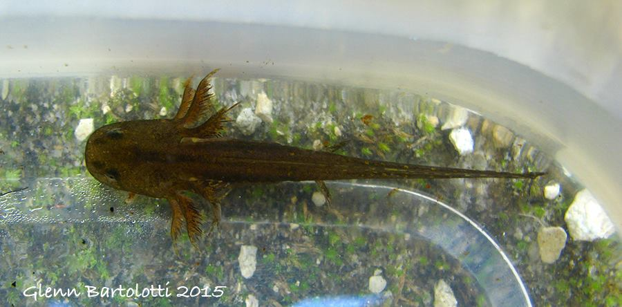 Marbled salamander larvae (Ambystoma opacum)